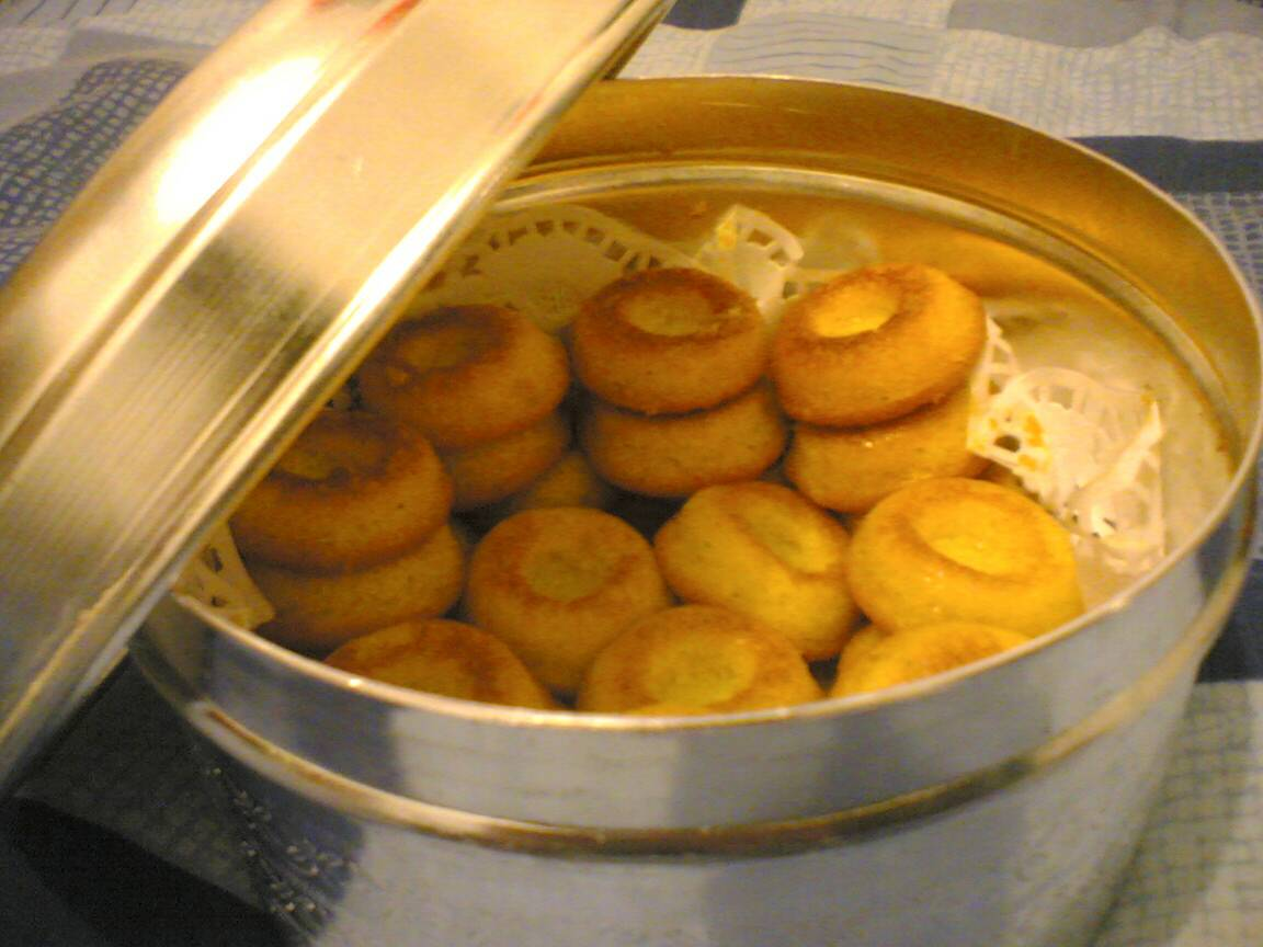 All-Kuwaiti miniature cakes, freshly arrived from Kuwait